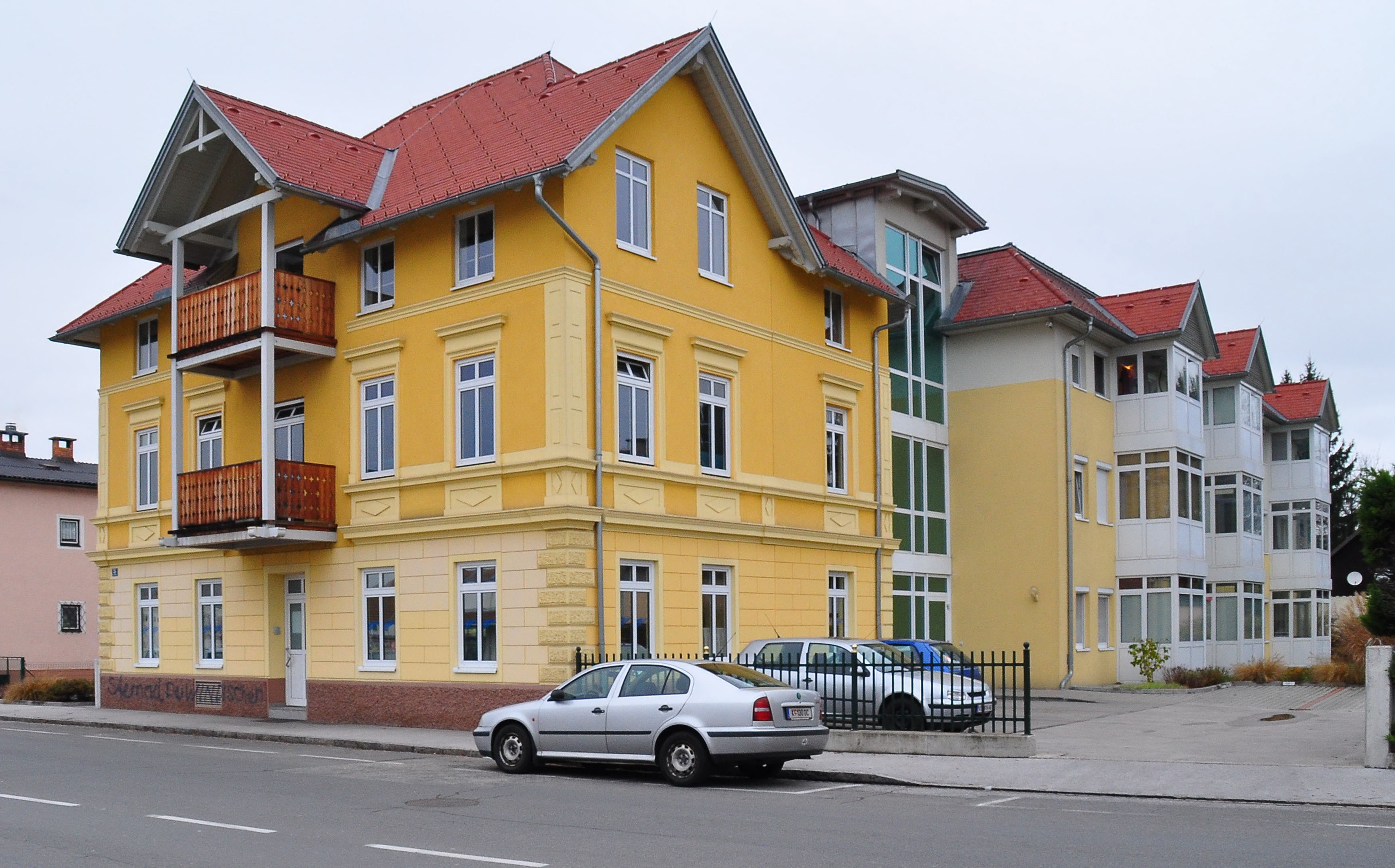 Birthplace of the writer Ingeborg Bachmann in the Durchlass street #35, 9th district “Annabichl” of Klagenfurt, Carinthia, Austria